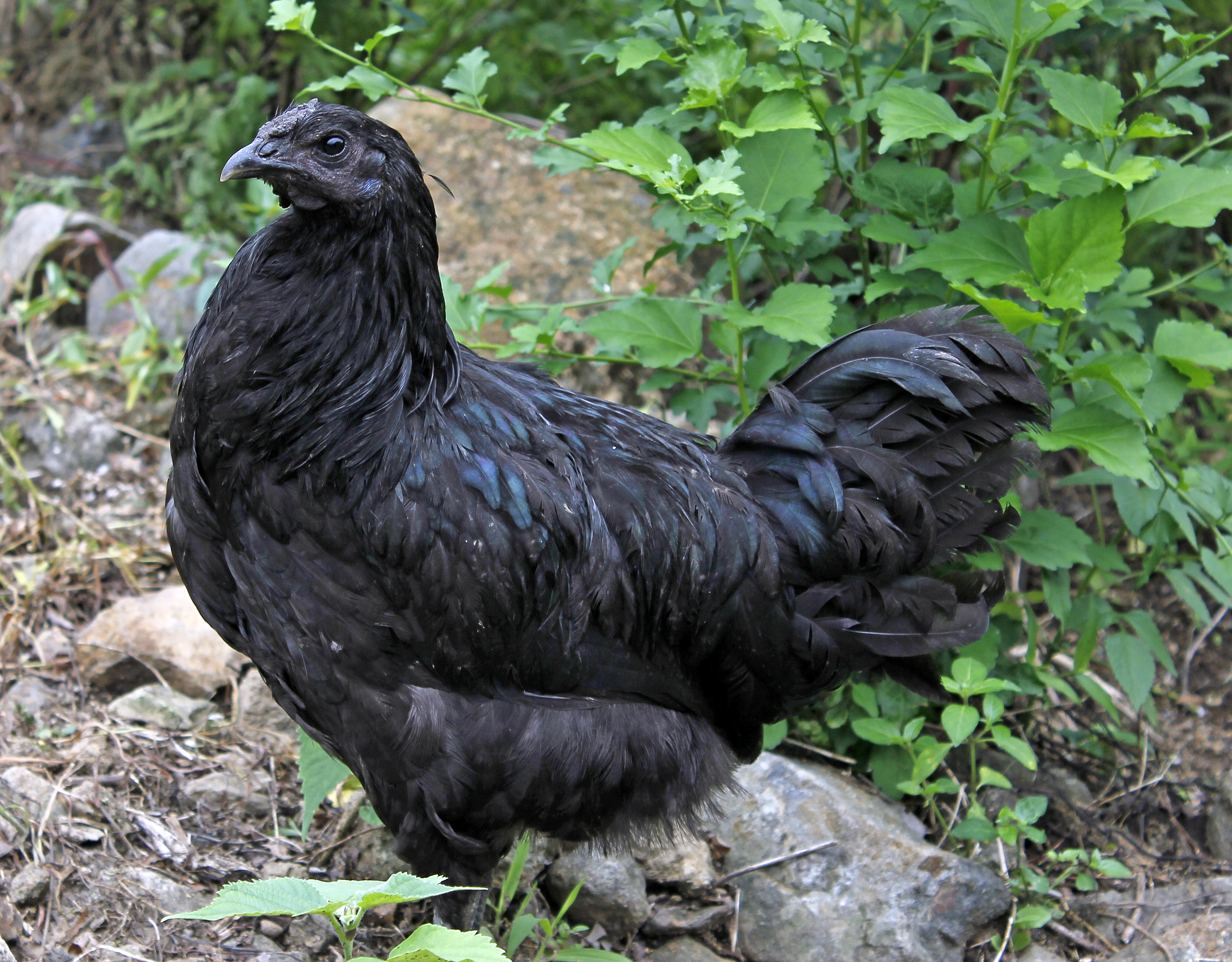 Breed Unknown